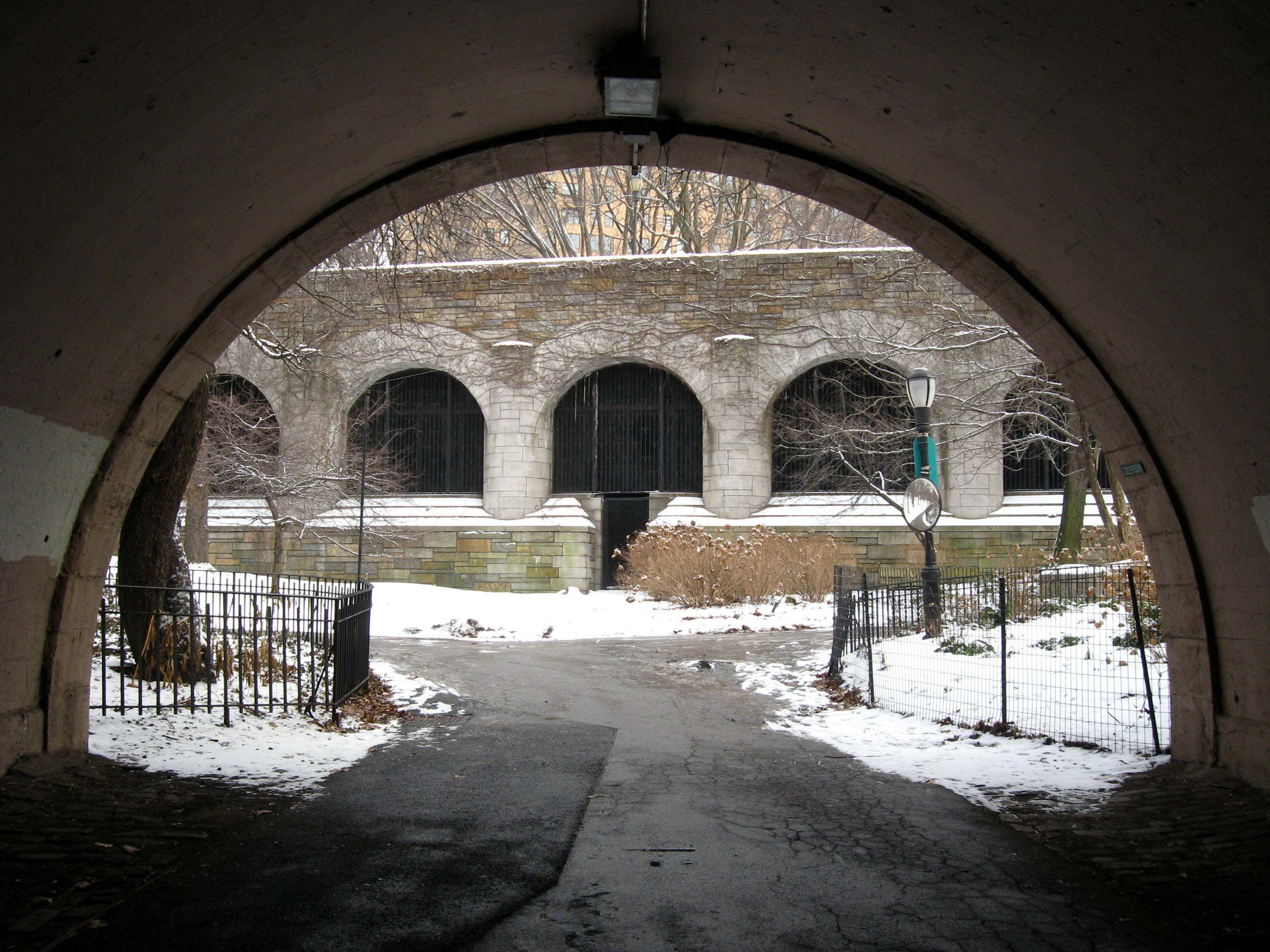 Looking east at maintenance access gate of West Side Line (NYCRR) in Riverside Park on a snowy midday.